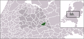 Location of Dutch former municipality Leersum in 2005. Made by me (Mtcv), PD.